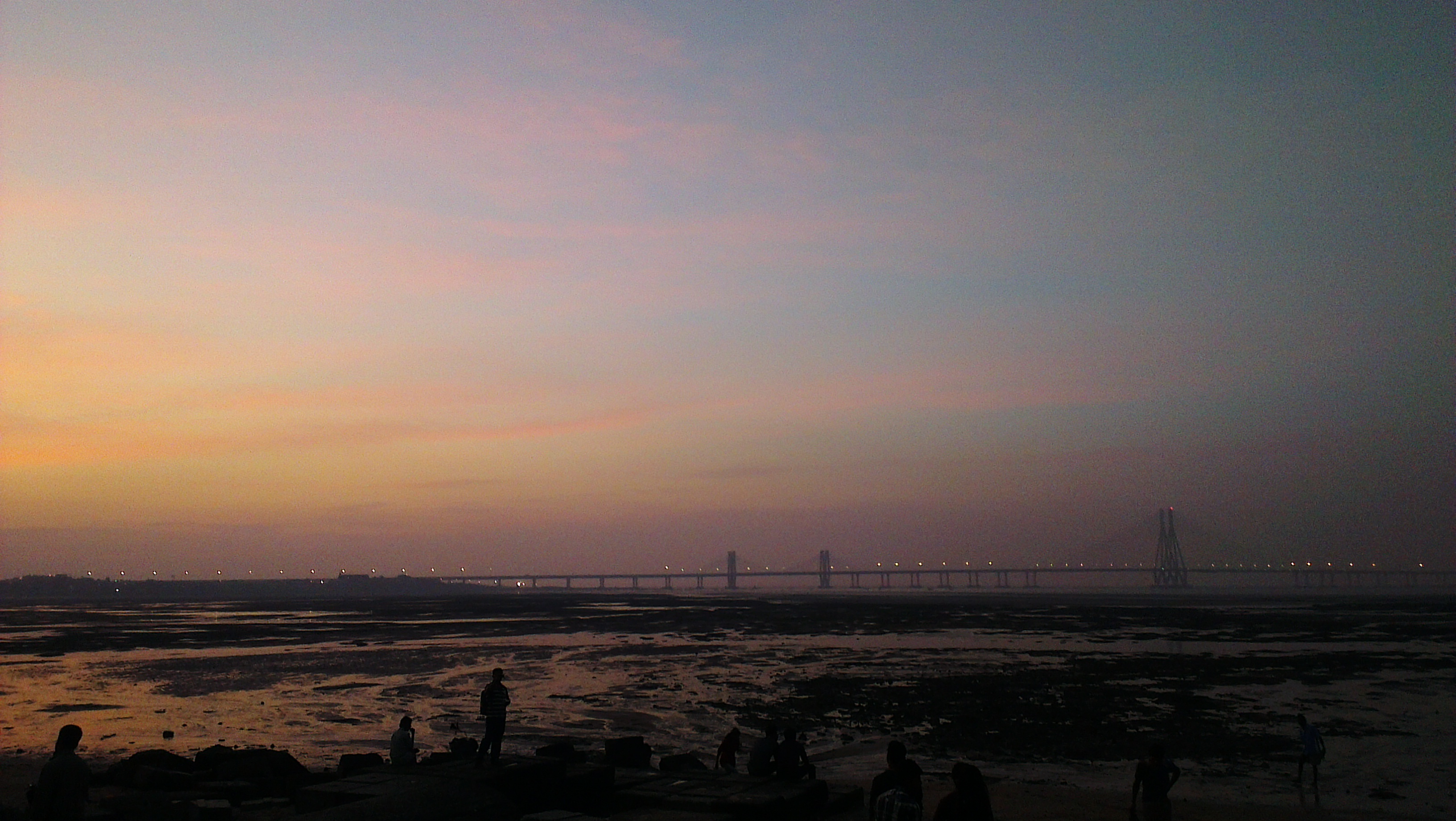 View of Bandra Worli Sealink from Dadar Chowpatty At Sunset